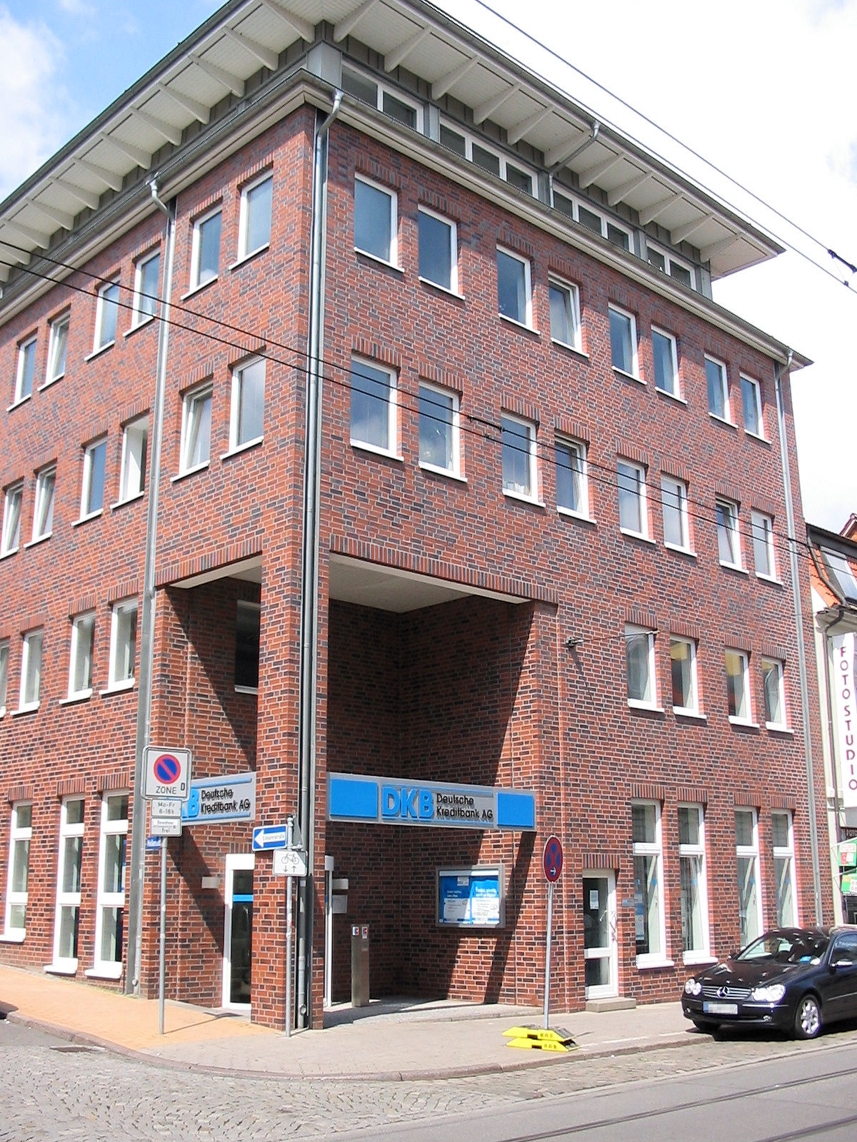 Subsidiary of DKB-Bank in Schwerin, Mecklenburg-Vorpommern, Germany